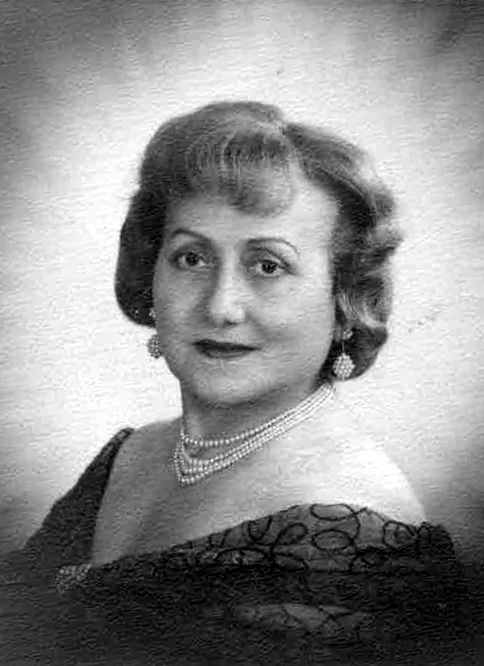 Mounira Thabet (1906-1067) (also known as Munira Thabit) took up numerous battles advocating women’s rights through Al-Amal Magazine, of which the first issue came out in 1925 and Thabet was its editor-in-chief. One of the most significant struggles she spearheaded was on women’s political rights, i.e. their right to take up public posts and to run for elections.